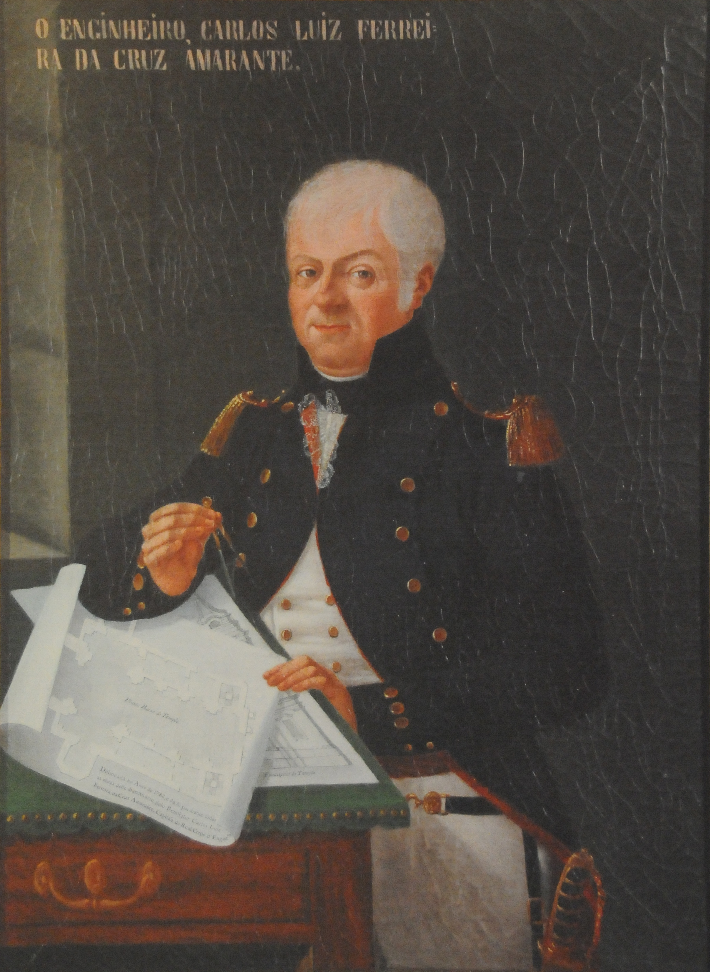 Portrait of Carlos Amarante in Raio Palace, in Braga, Portugal.